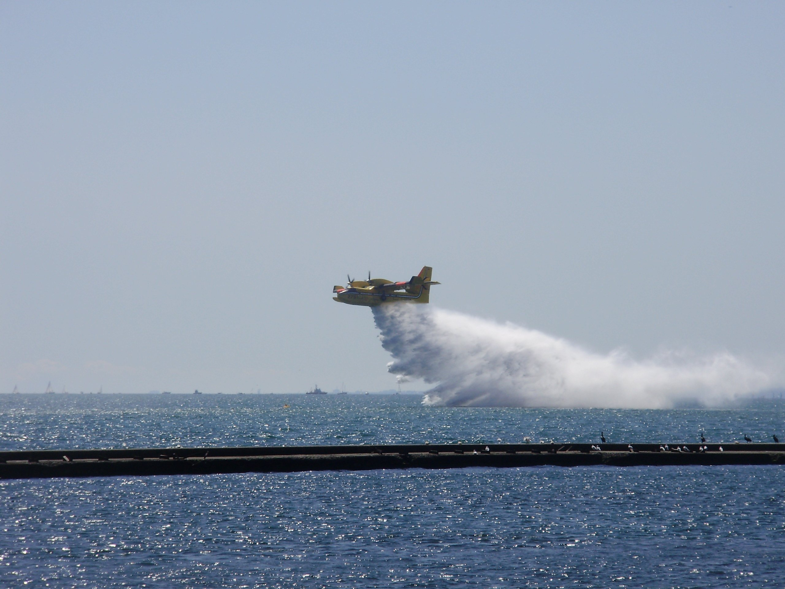 A Bombardier 415 water bomber empties its tanks above Lake Ontario as part of its performance in the Canadian International Air Show in Toronto, Ontario, Canada.